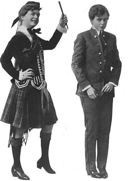 Actress Gertrude Bryan (Little Boy Blue ca. 1912)